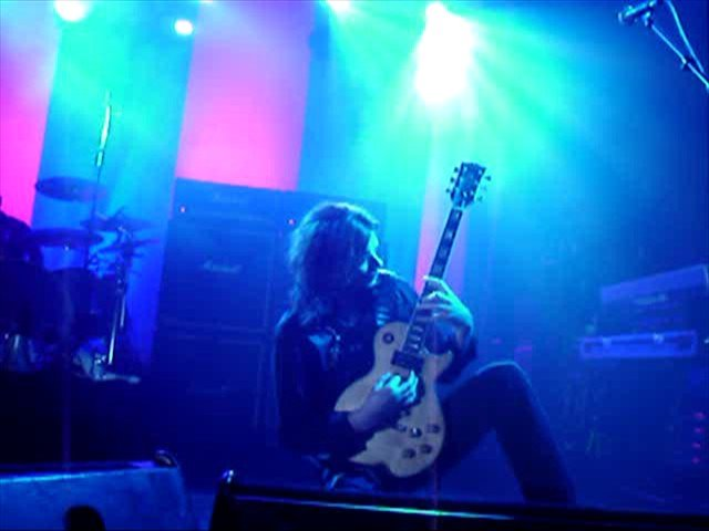 John Norum playing his guitar solo during the gig in Copenhagen (DK), 2006